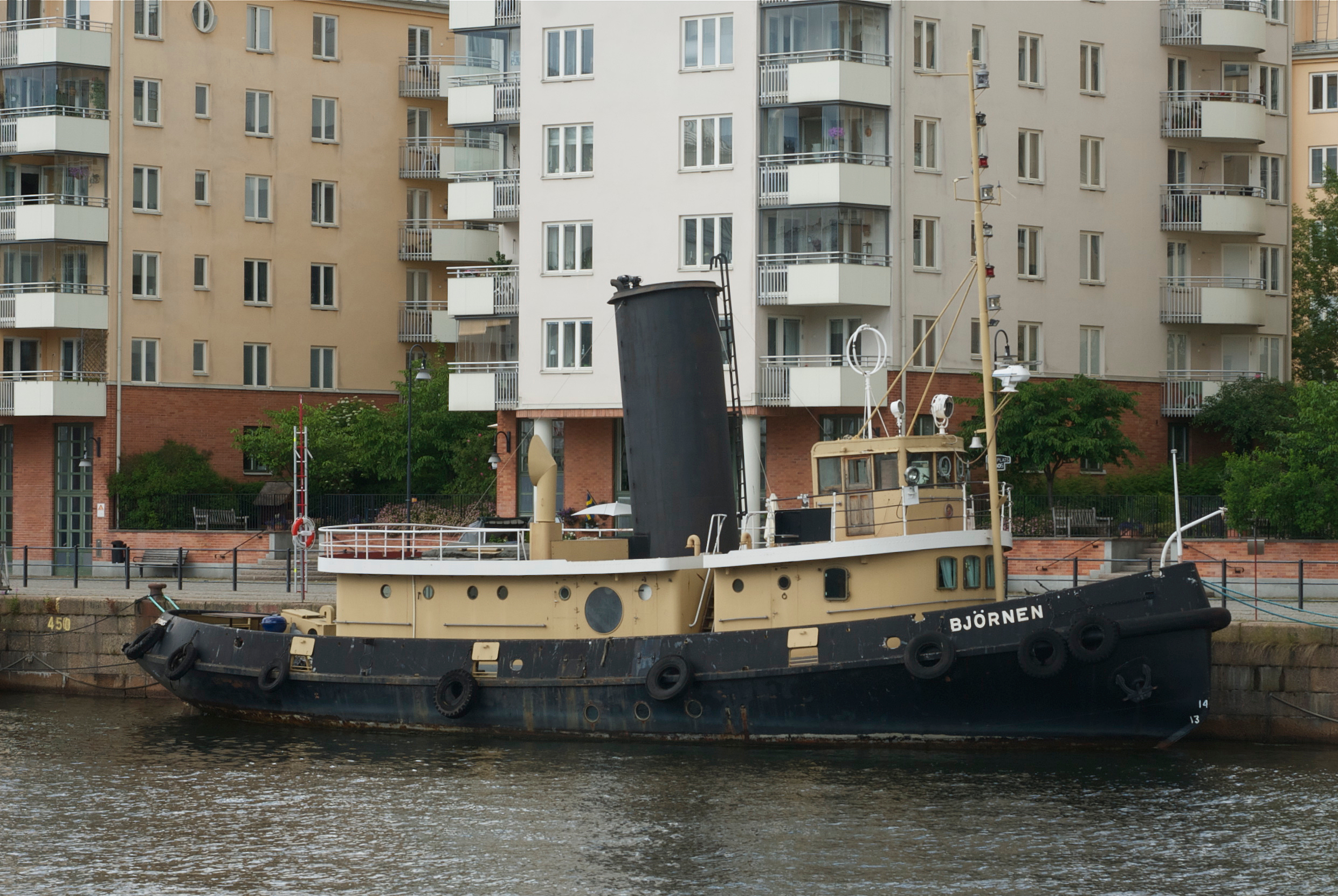 Björnen, Juni 2011.